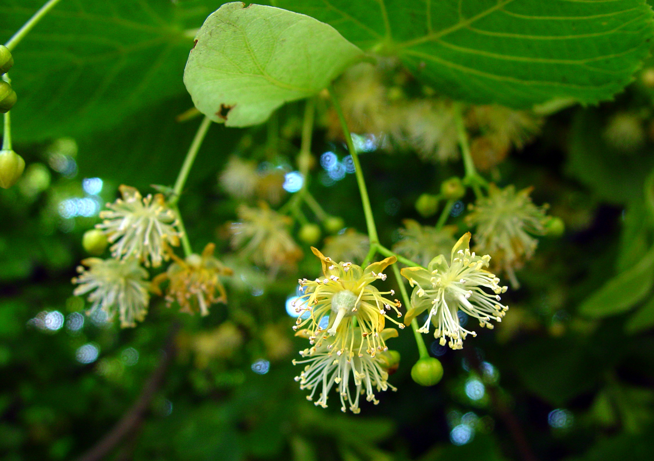 Lime blossom